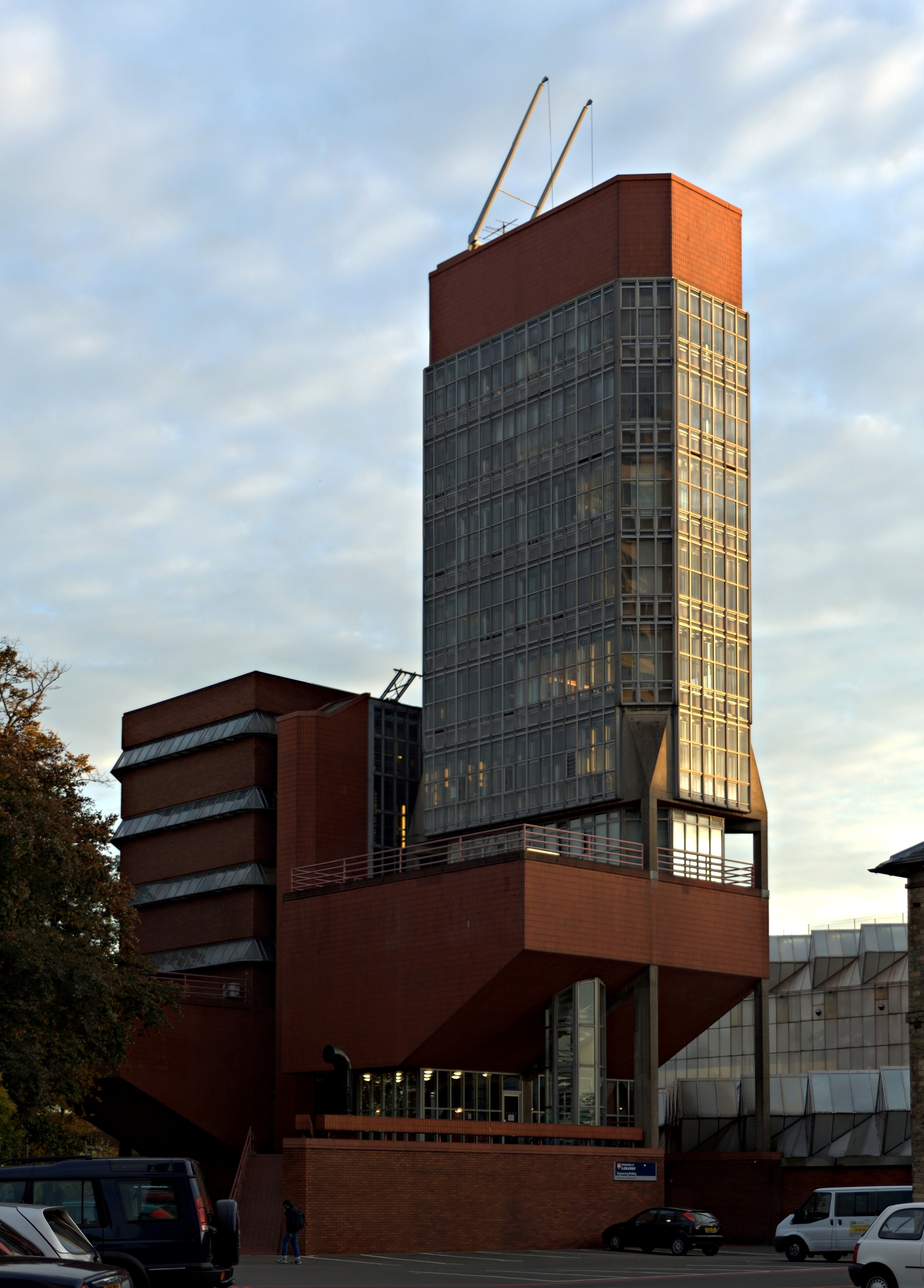 The Engineering Building, University of Leicester, designed by James Stirling and Grade II* star listed